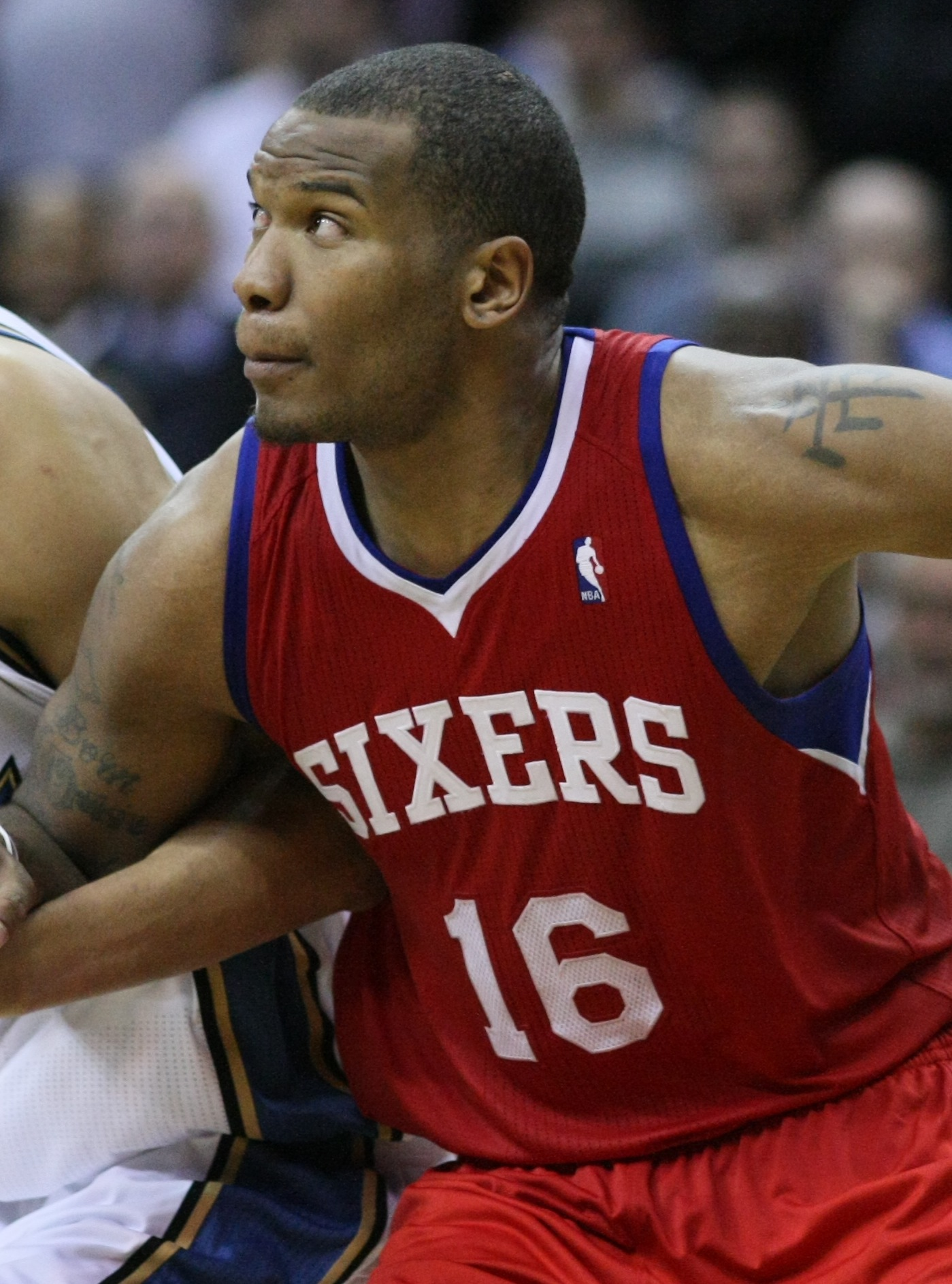 Washington Wizards v/s Philadelphia 76ers November 23, 2010 This file has been extracted from another file: JaVale McGee and Marreese Speights.jpg